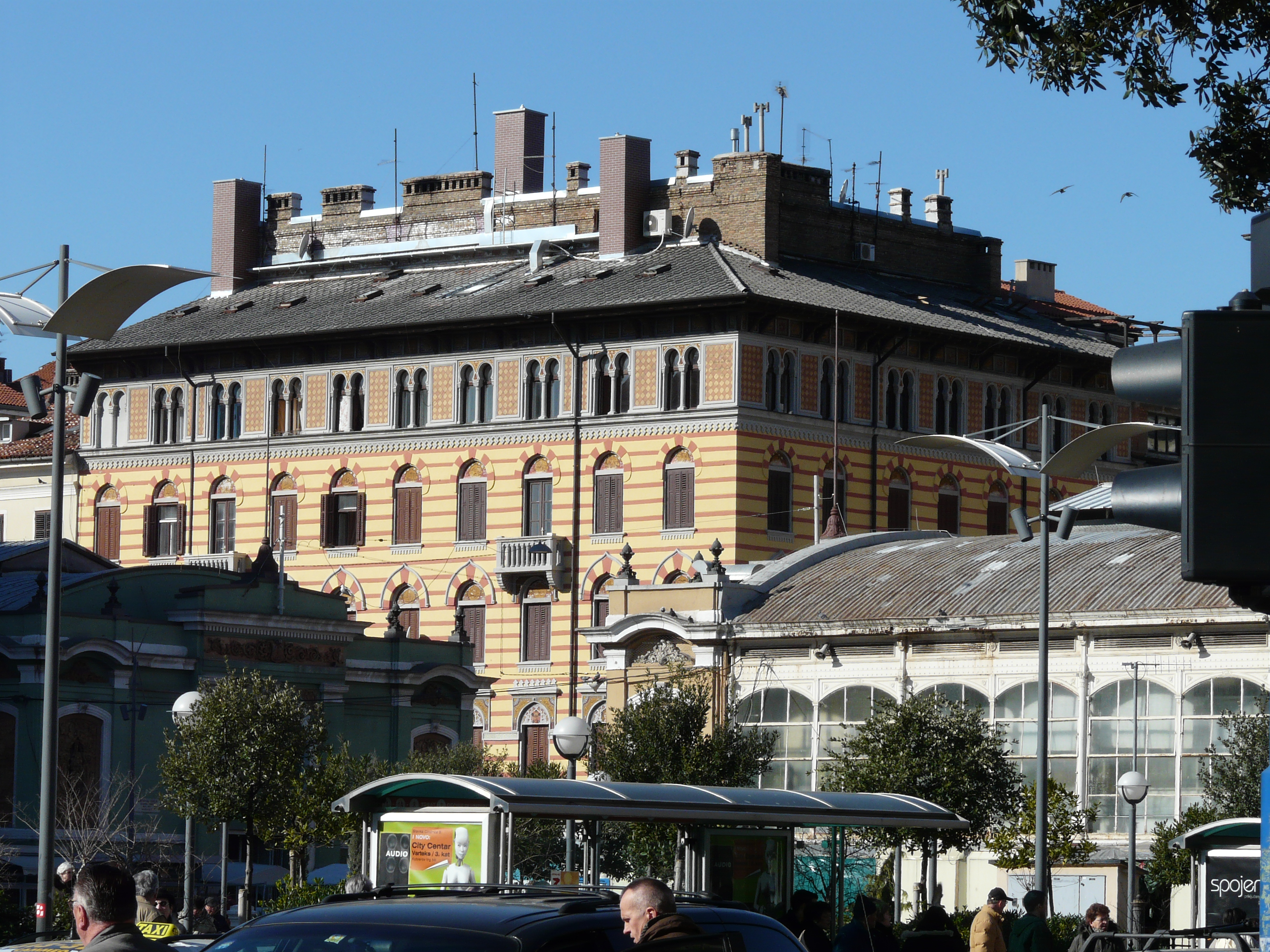 View from Teatral square to Turkich House in Rijeka.